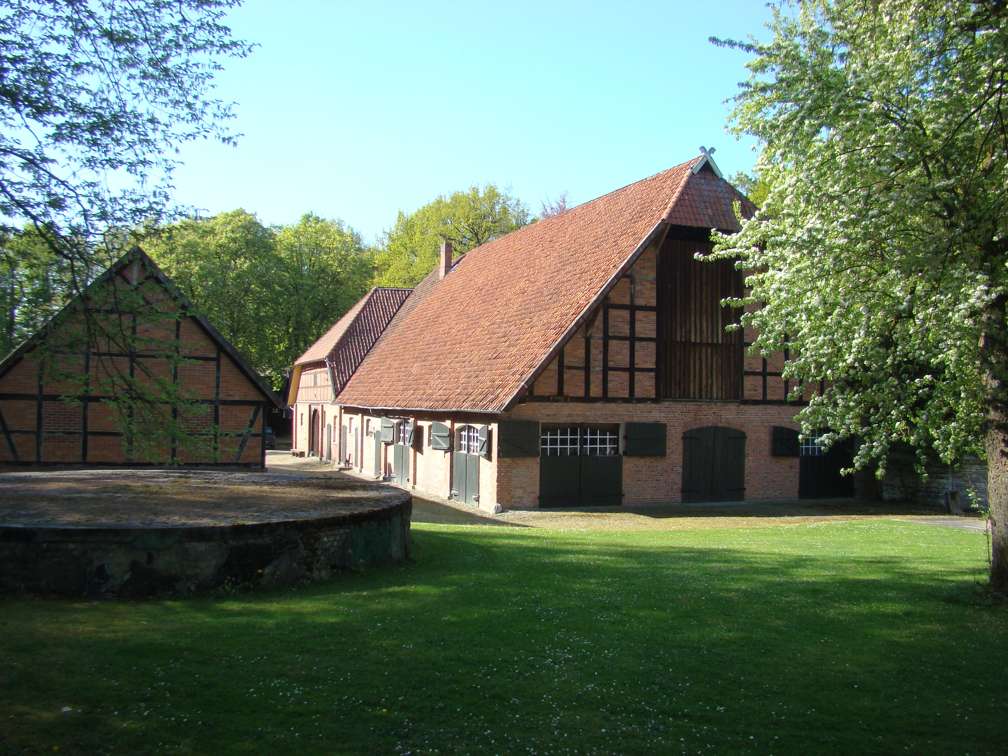 The Gehrshof, an old farm in Dohnsen, Lower Saxony, Germany.